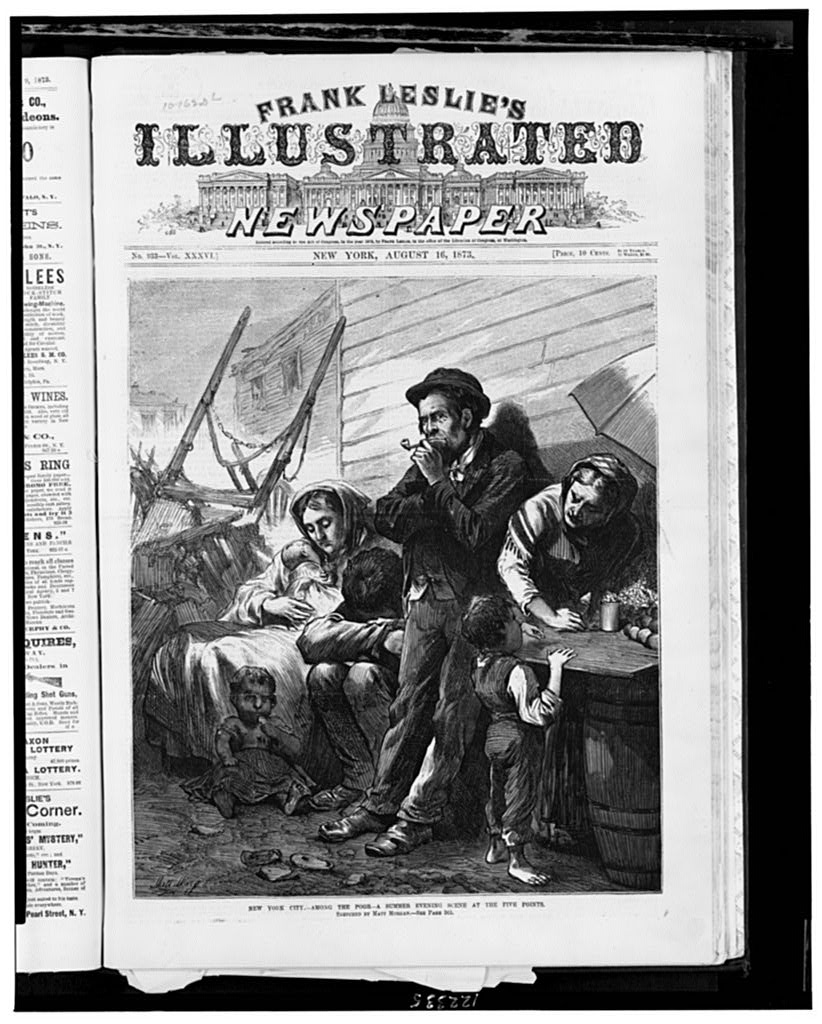 "New York City--Among the poor - A Summer evening scene at the Five Points" on the cover of Frank Leslie's Illustrated Newspaper.